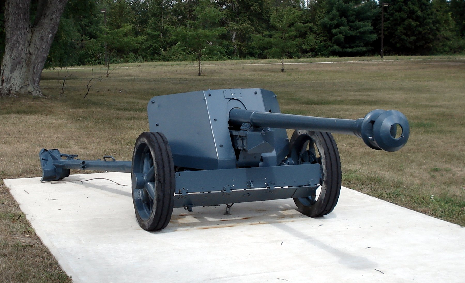 German PaK 40 75 mm anti-tank gun. This example is displayed on the grounds of CFB Borden (Base Borden Military Museum). Photo taken on August 18, 2006. Source: Photo by me, User:Balcer.